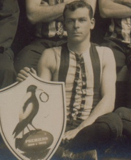 Photograph of Alby Tame in 1902.